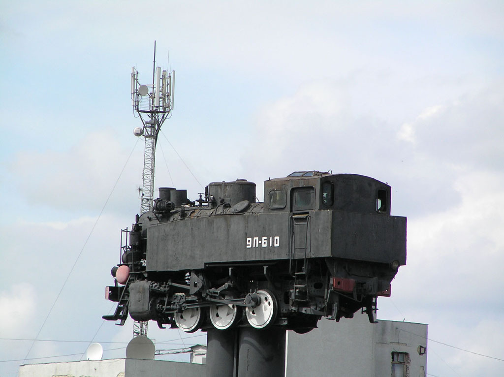 Steam locomotive 9P-610(monument) in the city Shepetivka, Khmelnytskyi Oblast